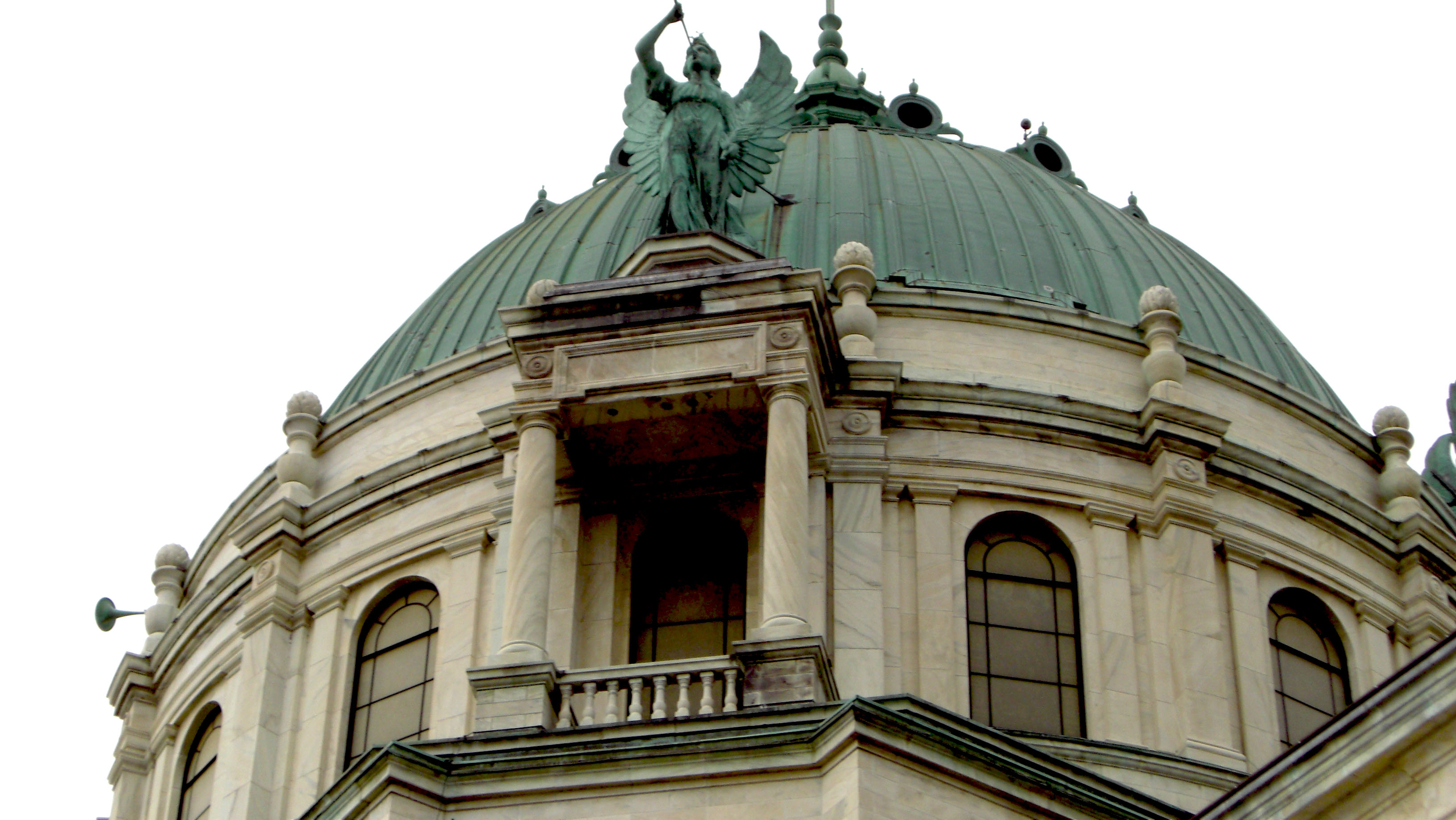 A close up of the exterior of the Great Dome of Our Lady of Victory Basilica in Lackawanna, New York.